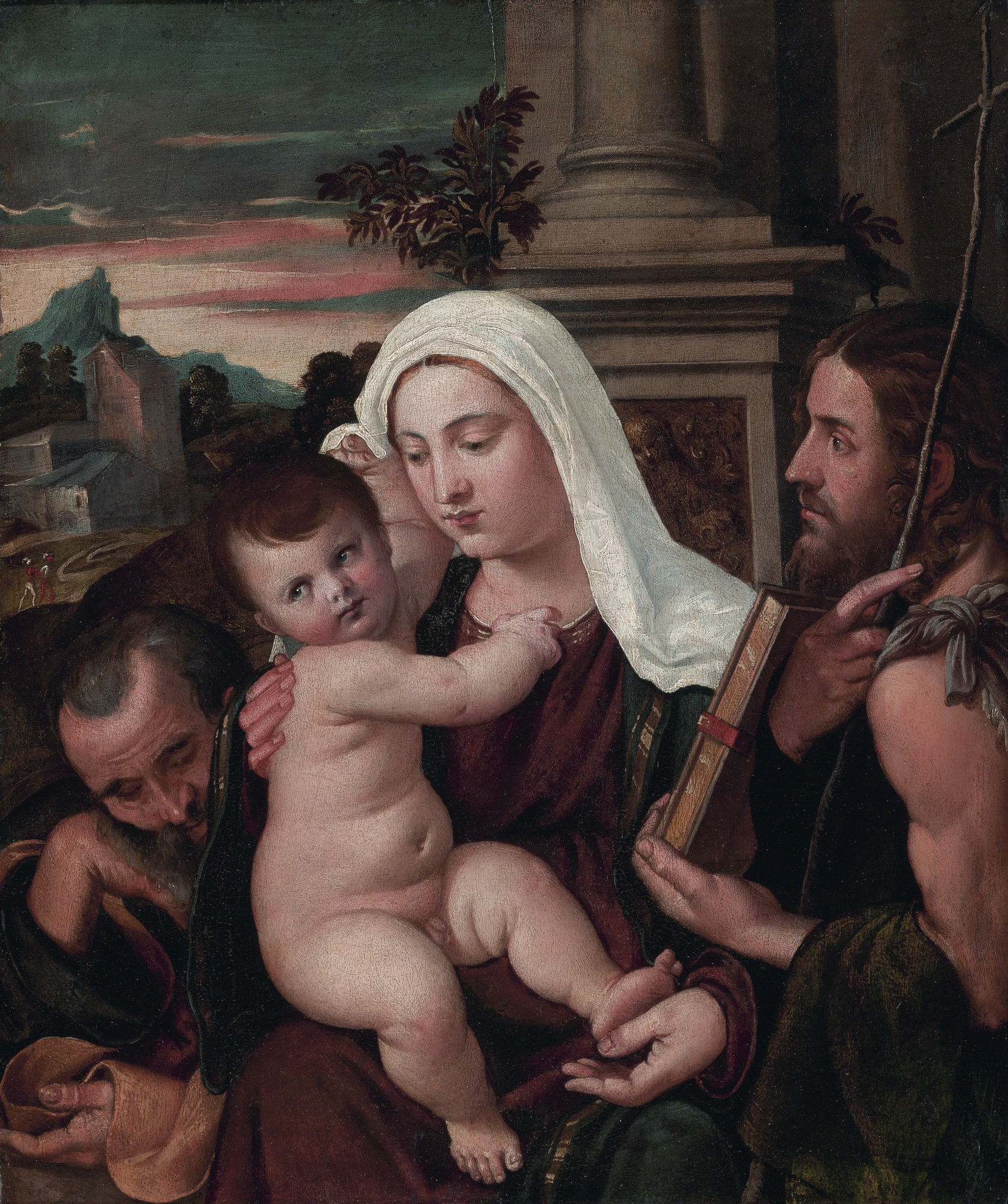 The Holy Family with Saint John the Baptist, a mountainous landscape with figures on a path beyond oil on panel 51 x 42.8 cm